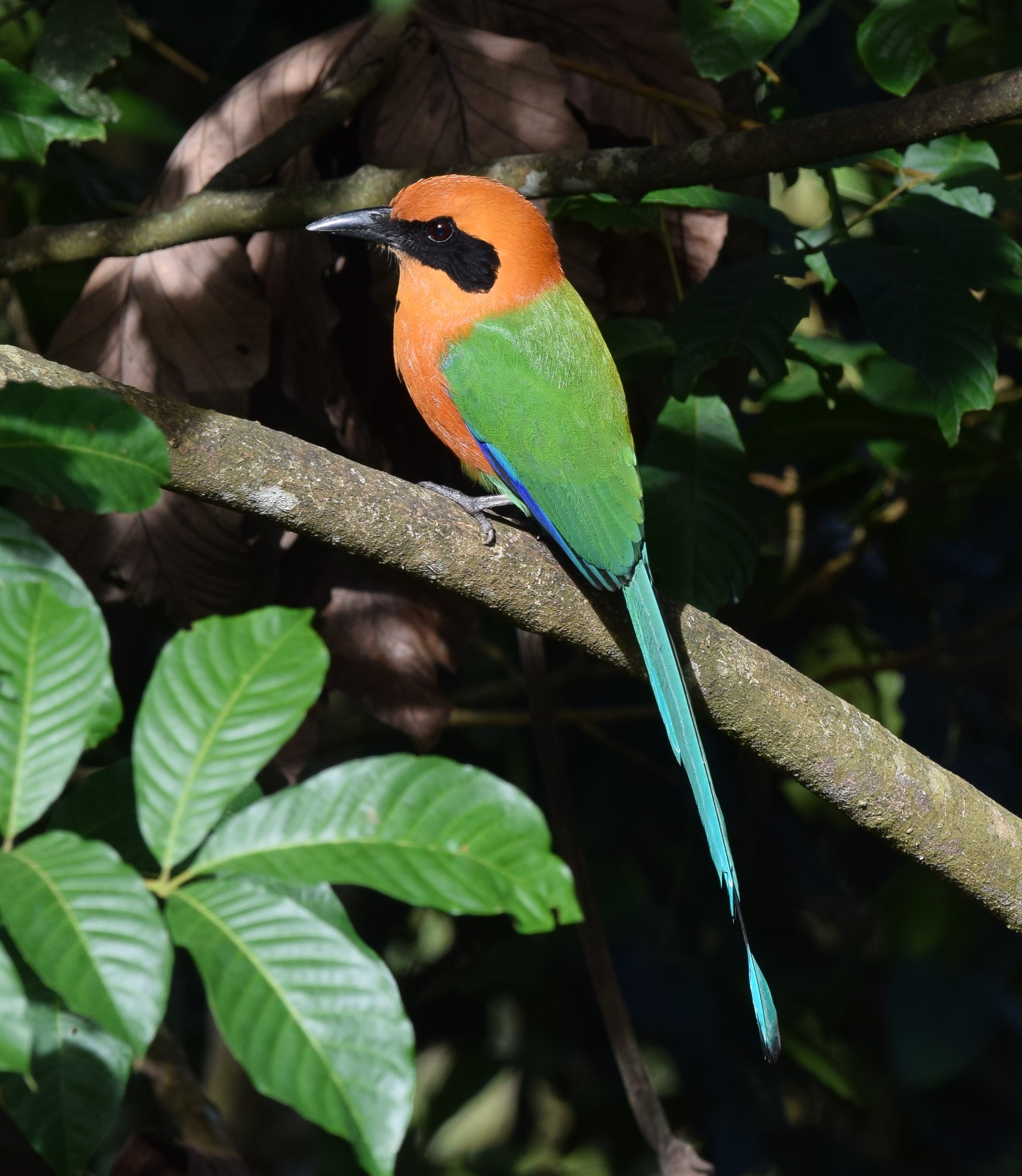 Costa Rica 2/14/16 Rancho Naturalista